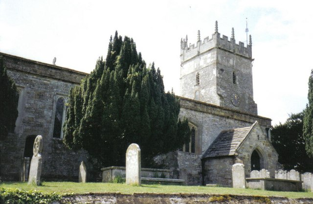 Puddletown: parish church of St. Mary